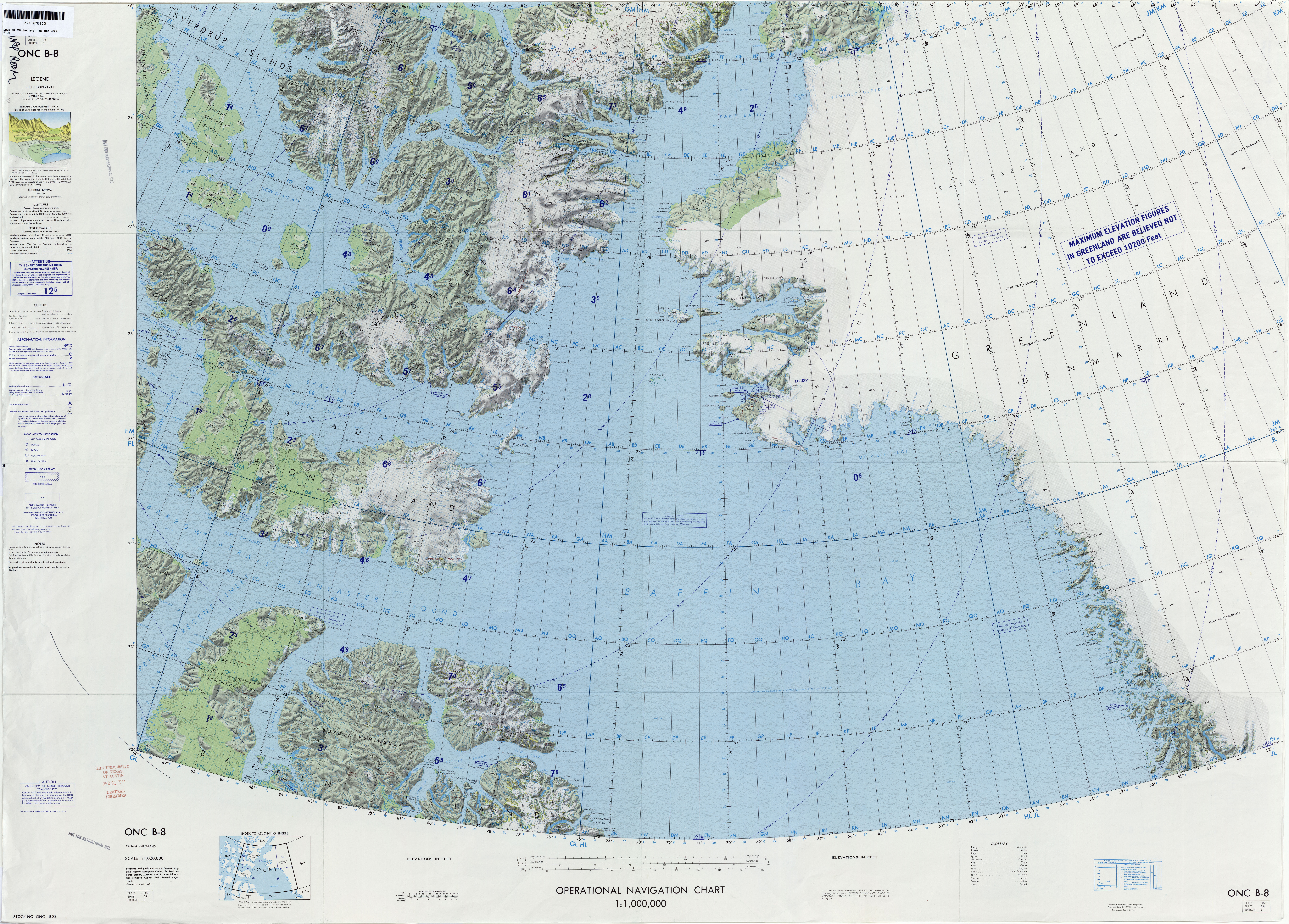 1:1,000,000 scale Operational Navigation Chart, Sheet B-8, 3rd edition Covers Canada, Greenland. Lambert Conformal Conic Projection. Standard Parallels 73 20N and 78 40N. Central longitude 70 45W.